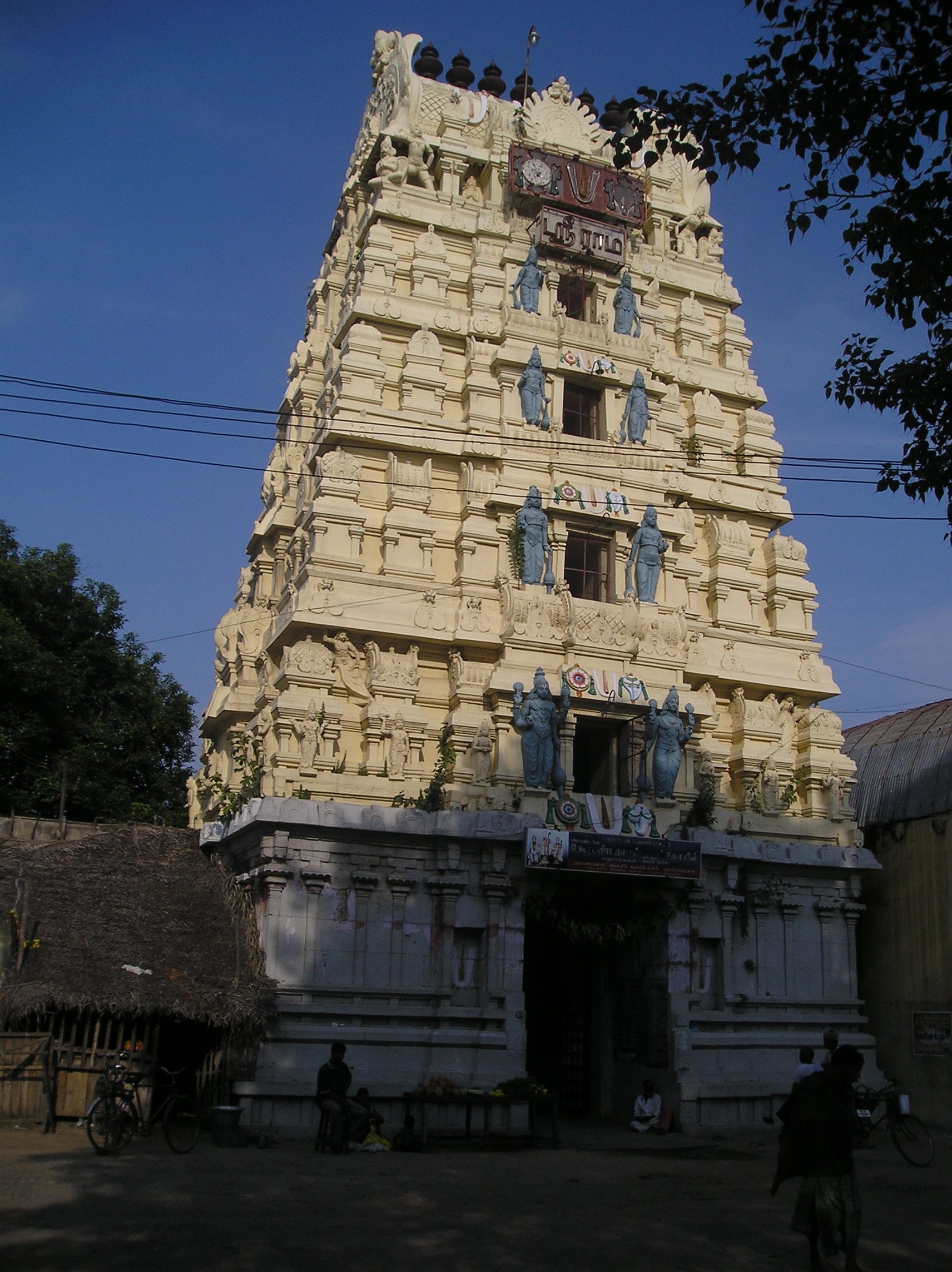 Gopuram of the Eri-Katha Ramar Temple of Maduranthakam, Tamil Nadu, India